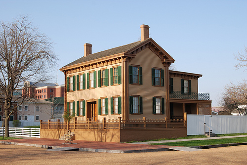 Most photographed corner of the Lincoln home in Springfield, Illinois.